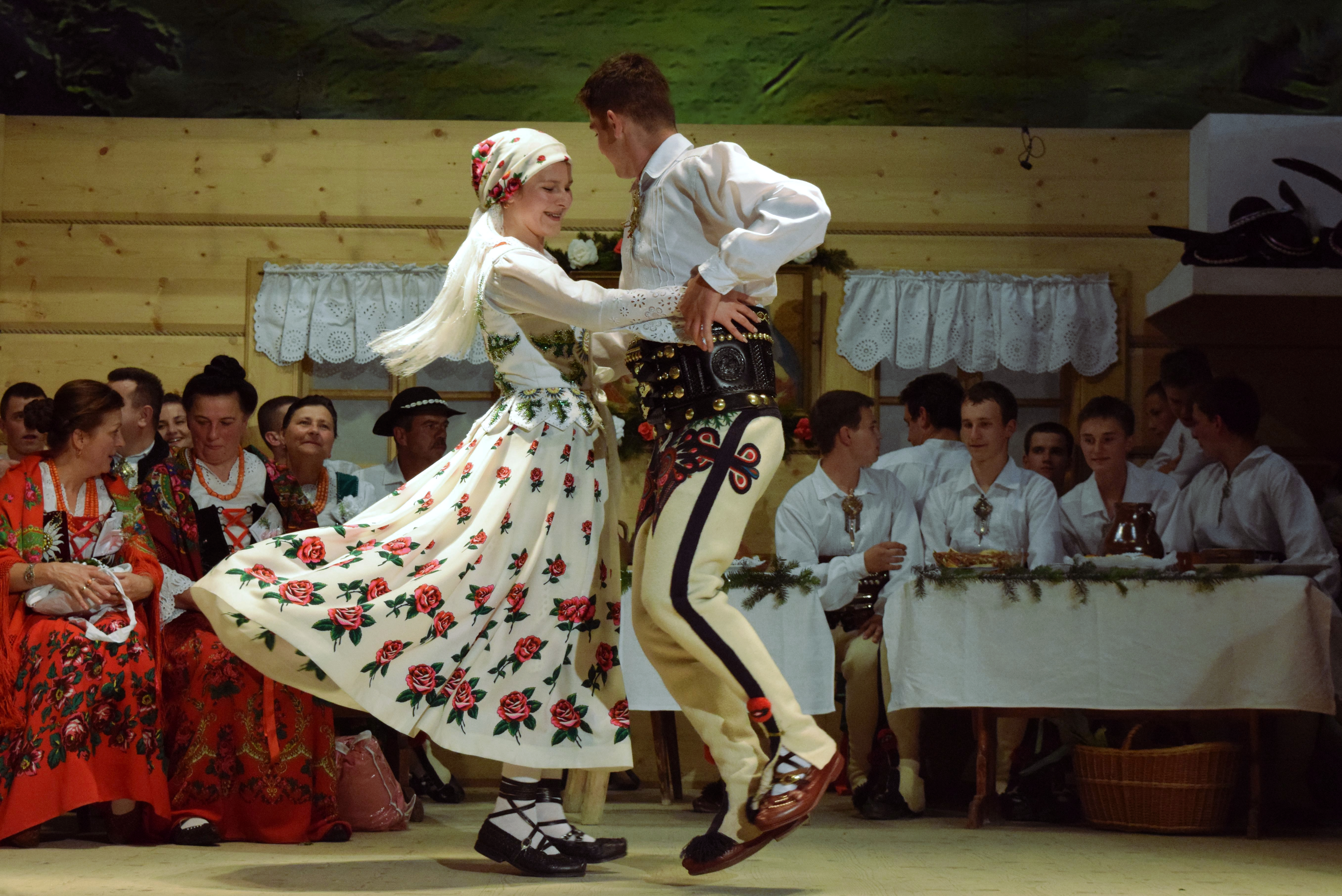 "Gorals' Wedding" folk performance at Dom Ludowy Theatre in Bukowina Tatrzańska - bride and groom dancing